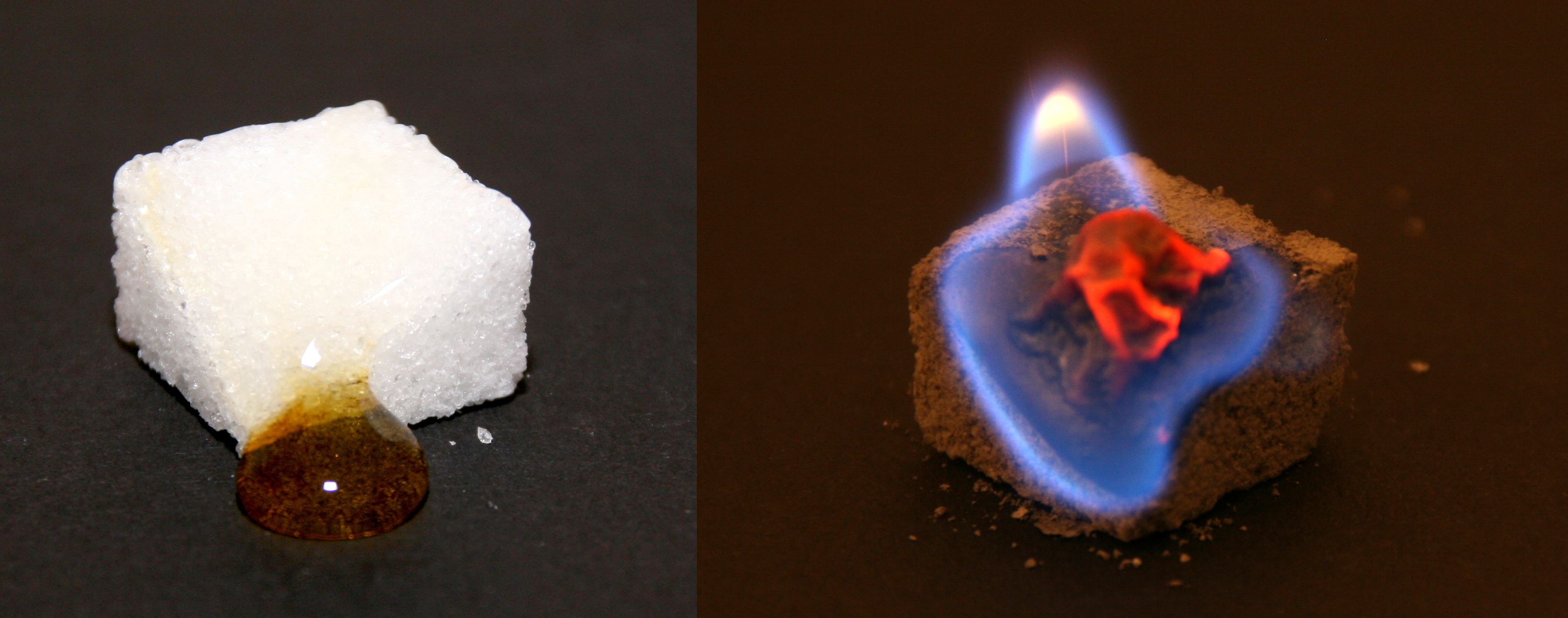 Left: If you try to light a sugar cube, it will not burn on its own - the sugar will caramalize. But if you cover it in ash (a catalyst), it will ignite. The pictures show partially caramelised cube sugar, right: burning cube sugar with ash as catalyst